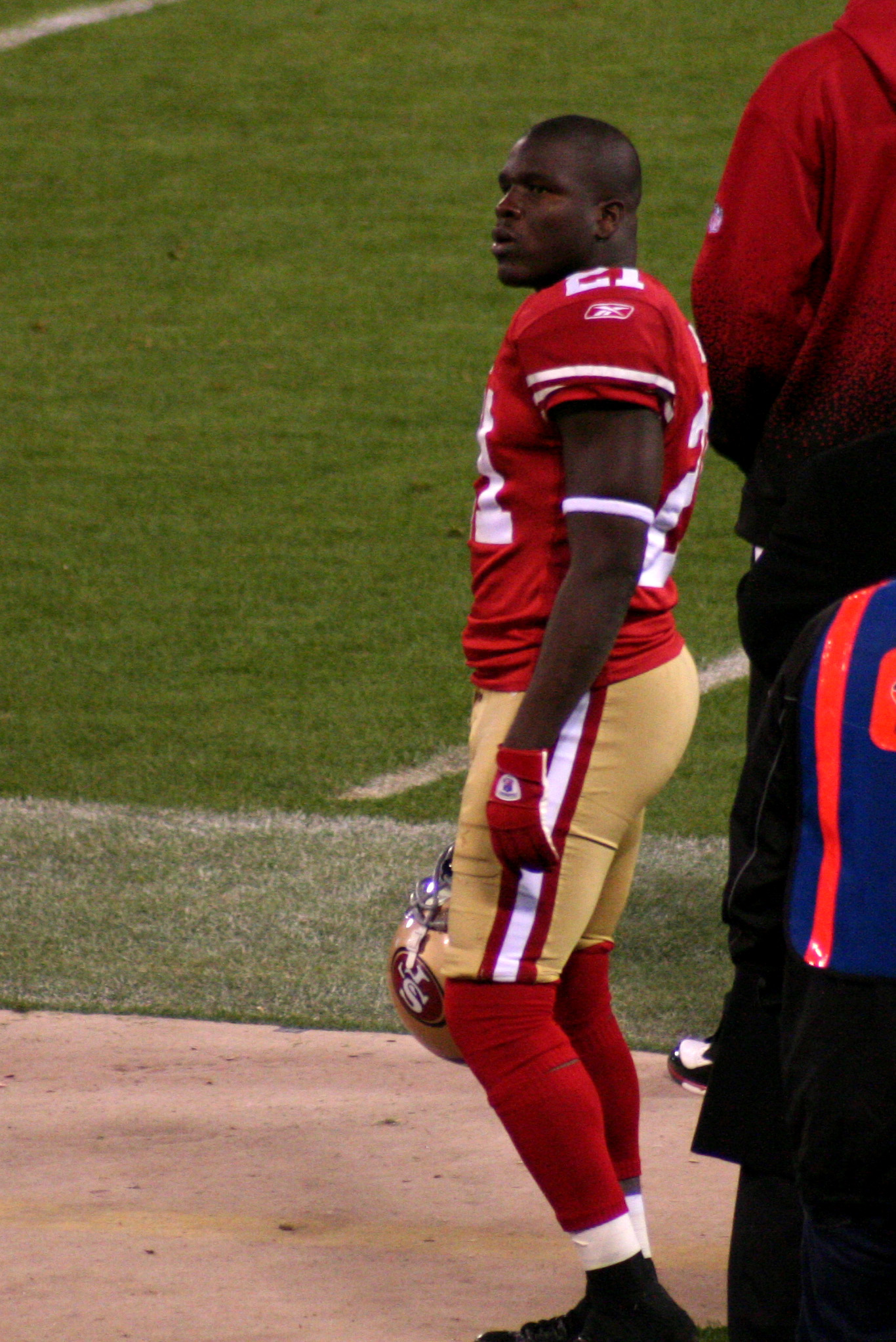 Frank Gore of the San Francisco 49ers in 2009 vs Chicago Bears